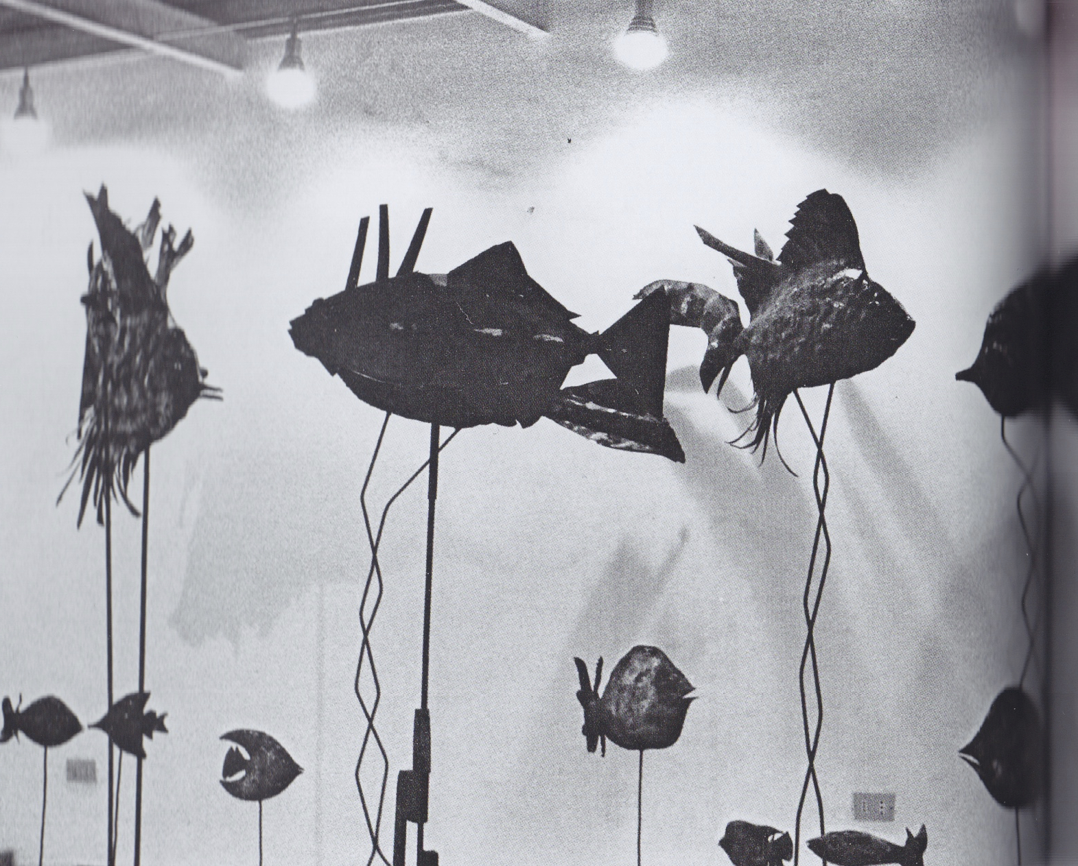 A view of exhibition's vernissage «Giovanni Tamburelli - Un acquario di ferro», Milano, Galleria Antonia Jannone, July 3 1996